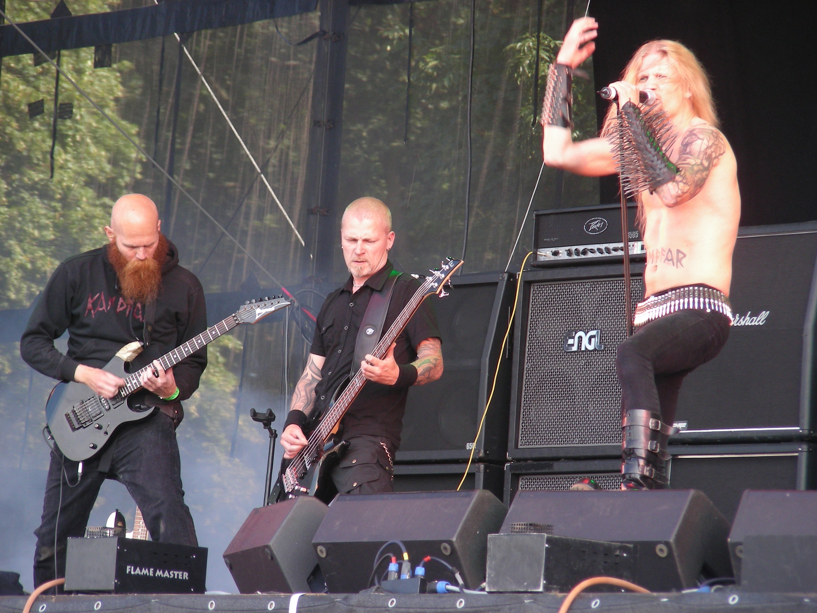 The norwegian black/pagan Metal band Kampfar at Wacken Open Air 2010